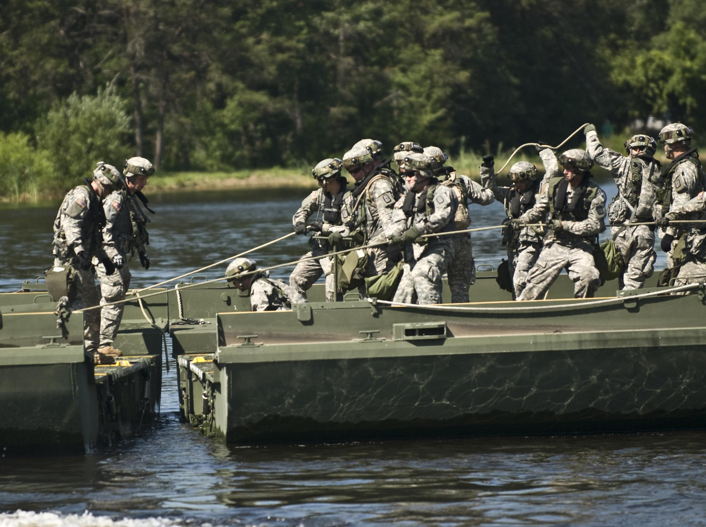 Members of the 341st Engineer Company based out of Fort Chaffee Ar., attach pieces of an improved ribbon bridge during the 2011 Warrior Exercise held here. The 2011 WAREX is one of several major exercises conducted by the US Army Reserve. U.S. Army Photo by Spc. Cliff Coy